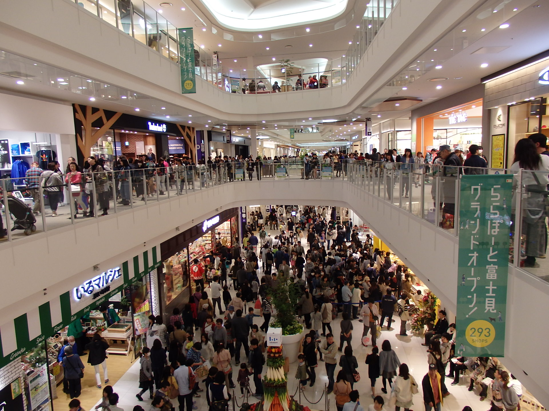 Inside the Lalaport Fujimi shopping mall in Saitama Prefecture, Japan